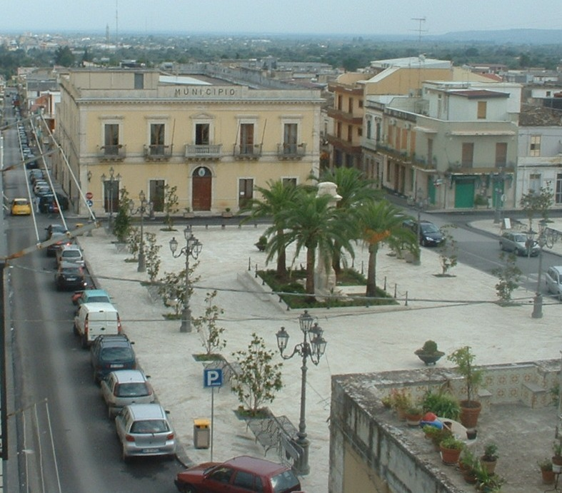 Solarino, Plebiscito Square: The Town Hall and the Monument to Fallen Italian Soldiers. (XVIII sec.)